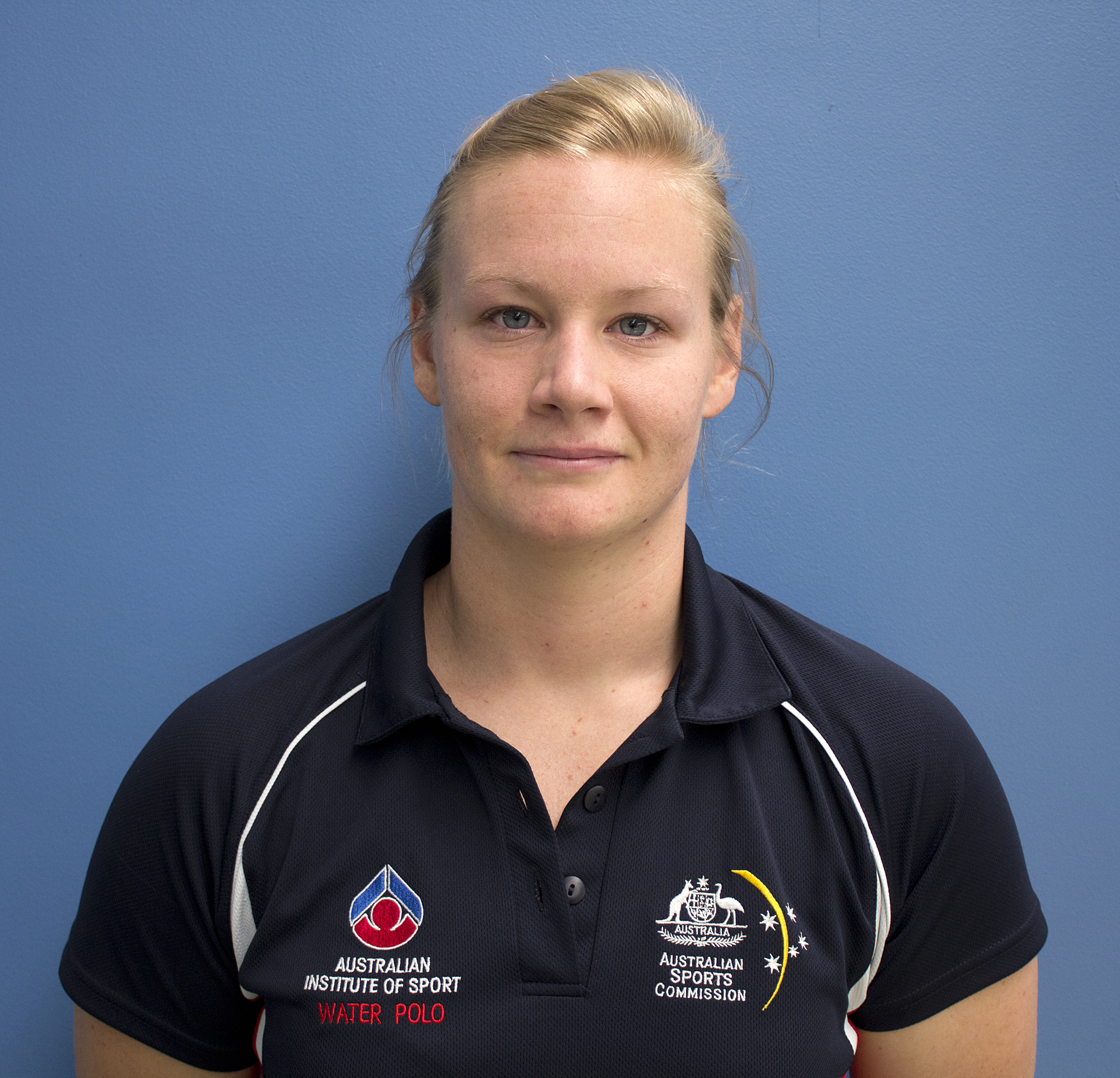 A portrait of Rowena Webster Australian women's national water polo player.